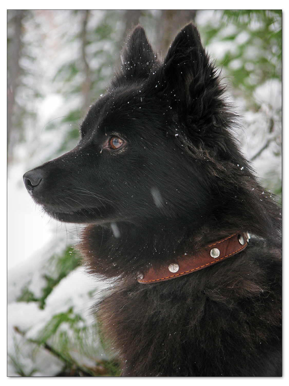 Фото Ненецкая лайка (оленегонный шпиц)